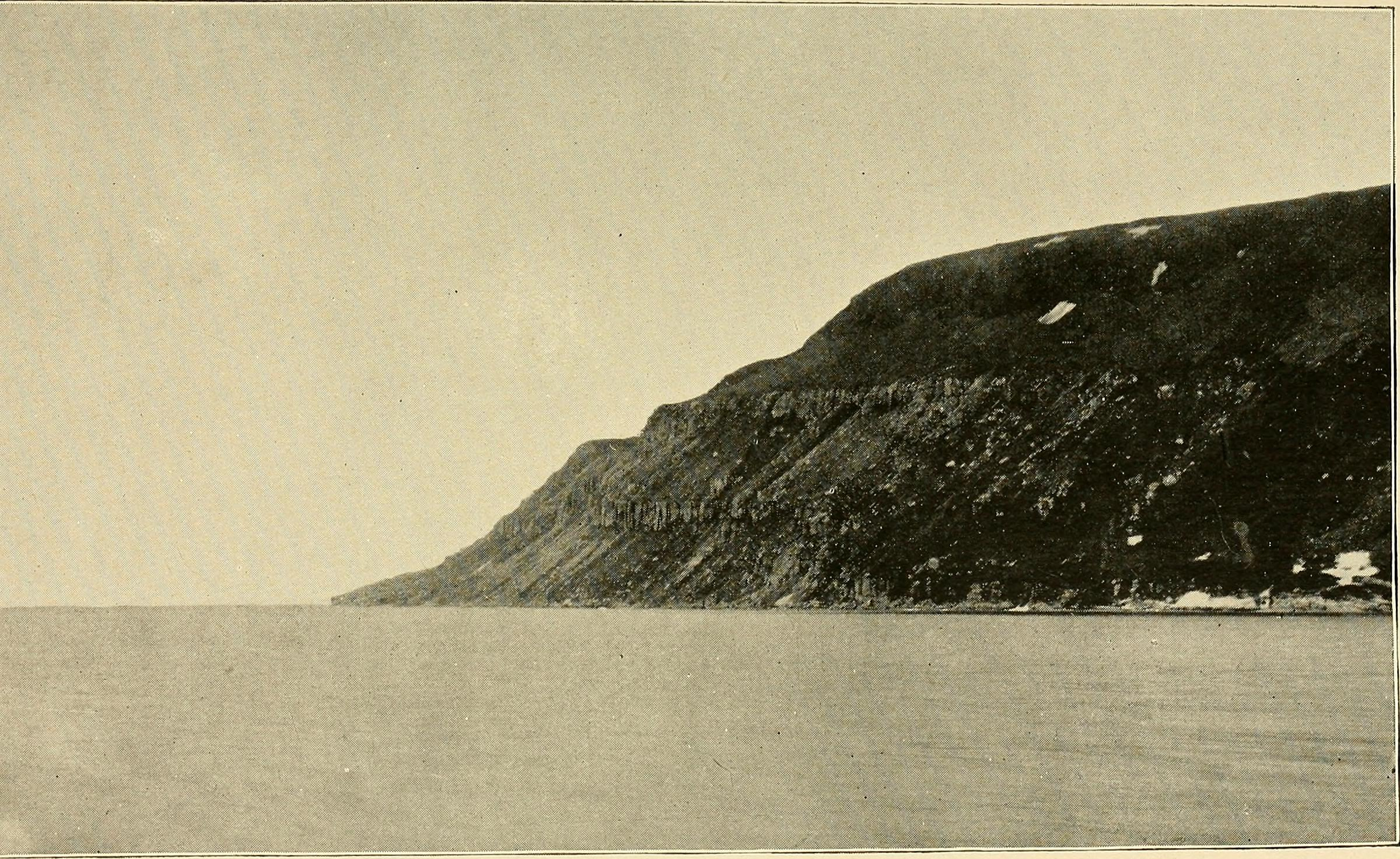 Cape Alexander Title: Northward over the great ice : a narrative of life and work along the shores and upon the interior ice-cap of northern Greenland in the years 1886 and 1891-1897, with a description of the little tribe of Smith Sound Eskimos, the most northerly human beings in the world, and an account of the discovery and bringing home of the Saviksue or great Cape York meteorites Year: 1898 (1890s) Authors: Peary, Robert E. (Robert Edwin), 1856-1920 Subjects: Eskimos Publisher: New York, NY : F.A. Stokes Company Text Appearing Before Image: TYPICAL STRATIFICATION AND DIP. miles. What with its southern exposure, the protec-tion from the wind afforded by the cliffs and bluffswhich enclose it, and the warmth of colouring of itsshores, it presents one of the most desirable locationsfor a house. The scenery is also varied and attract-ive, offering to the eye greater contrasts, with lesschange of position, than any other locality occurringto me. Around the circuit of the bay are sevenglaciers with exposures to all points of the compass,and varying in size from a few hundred feet to overtwo miles in width. Text Appearing After Image: *^ 2 rz 4^8 Northward over the Great Ice The ice-cap itself is also in evidence here, its verti-cal face in one place capping and forming a continua-tion of a vertical cliff which rises direct from the bay.From the western point of the bay, a line of greysandstone cliffs—the Sculptured Cliffs of Karnah—interrupted by a single glacier in a distance of eightmiles, and carved by the resistless arctic elementsinto turrets, bastions, huge amphitheatres, and colossalstatues of men and animals, extends to Cape Ackland